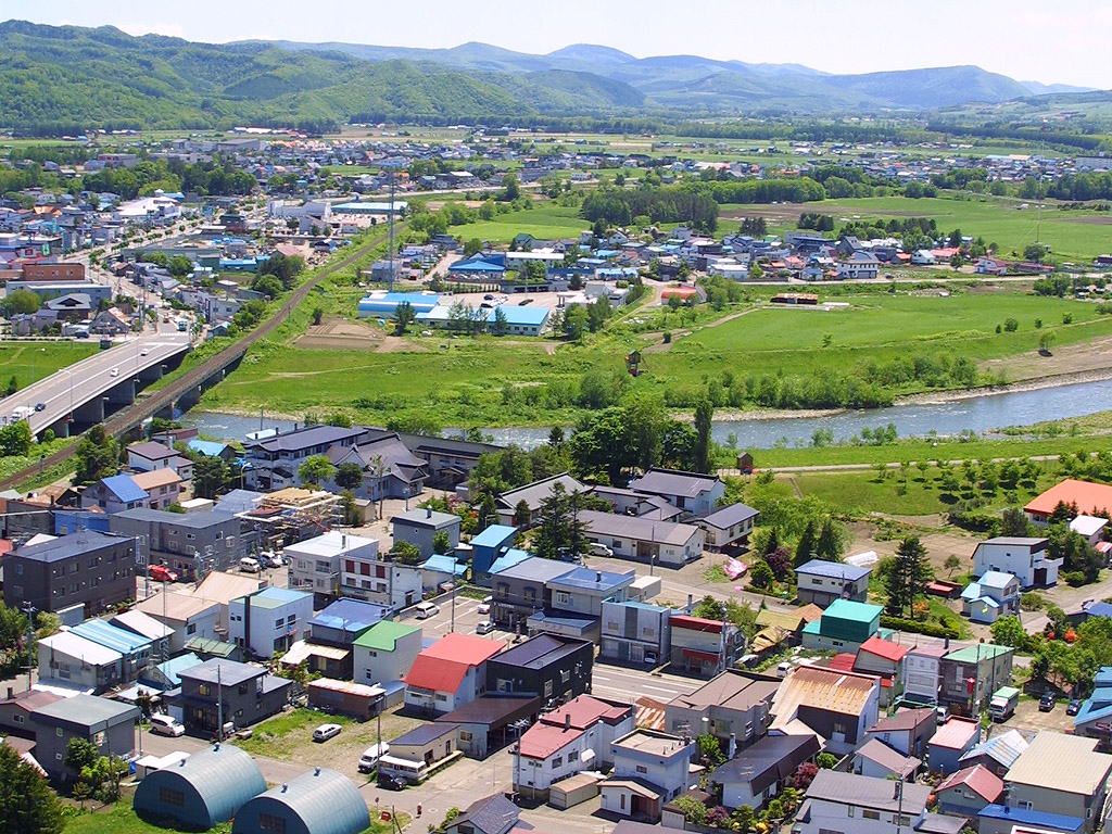 Engaru Town, Hokkaido, on 24 May 2004